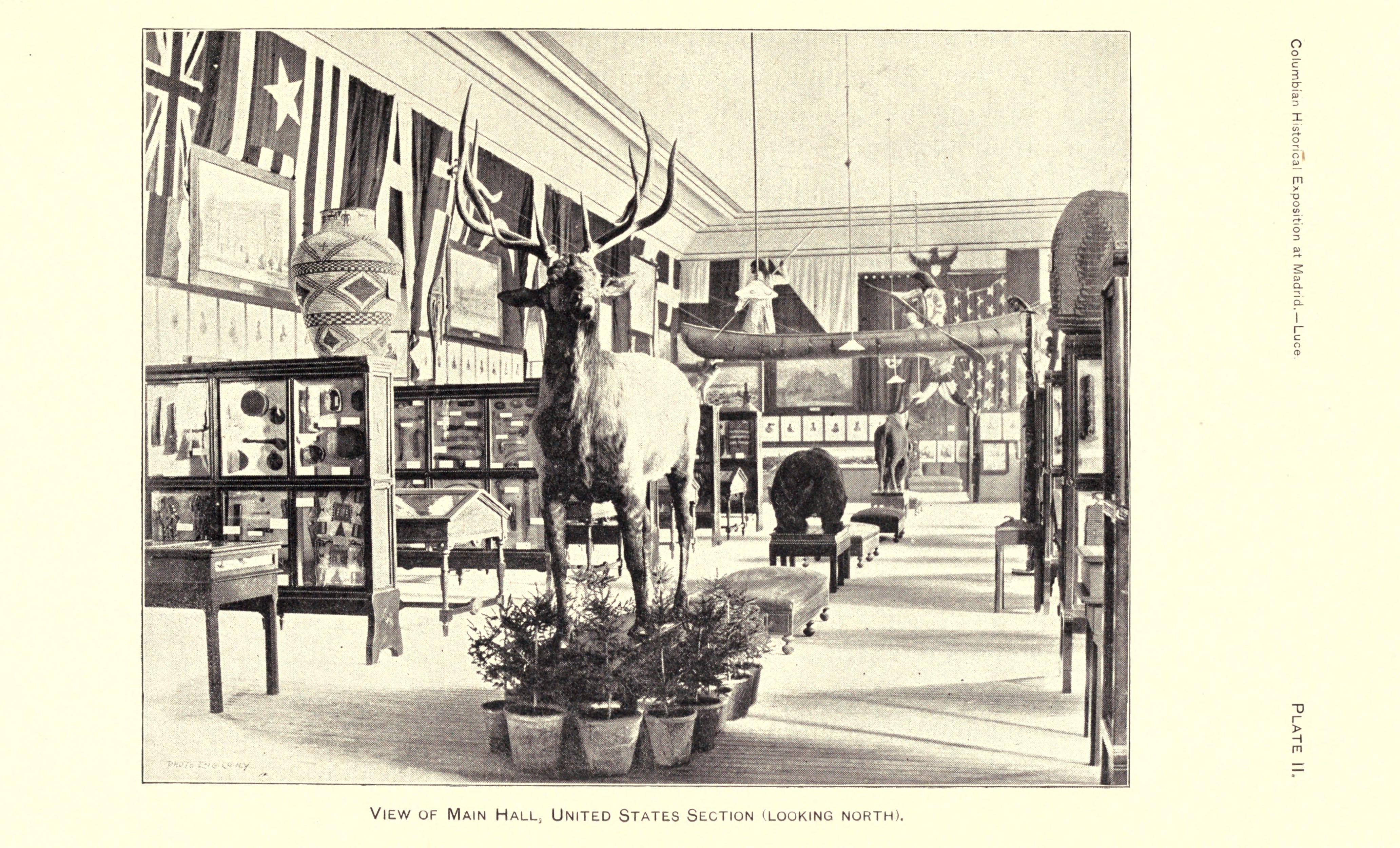 Report of the United States Commission to the Columbian Historical Exposition at Madrid. 1892-93. With special papers.